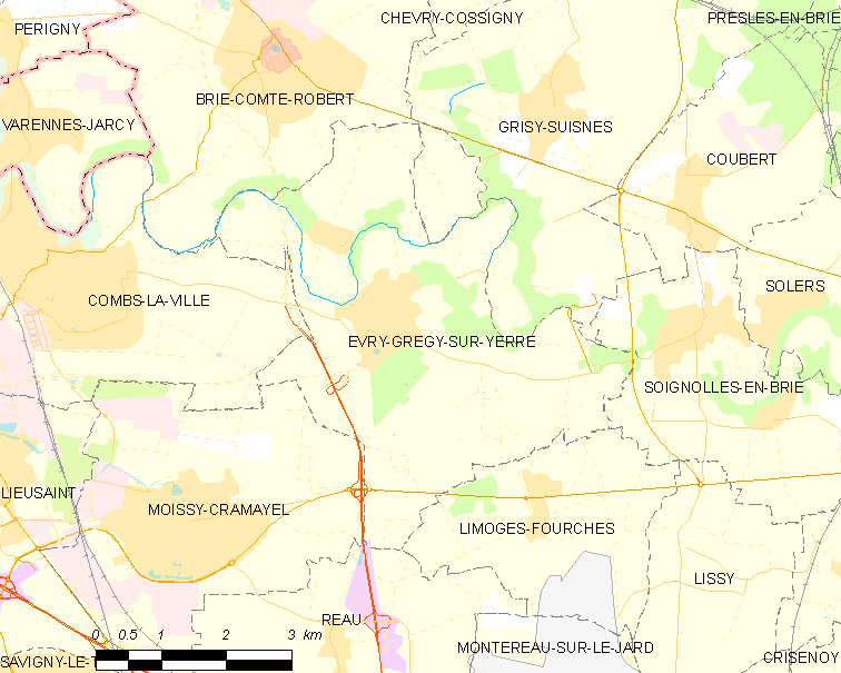 Map of French municipality Évry-Grégy-sur-Yerre